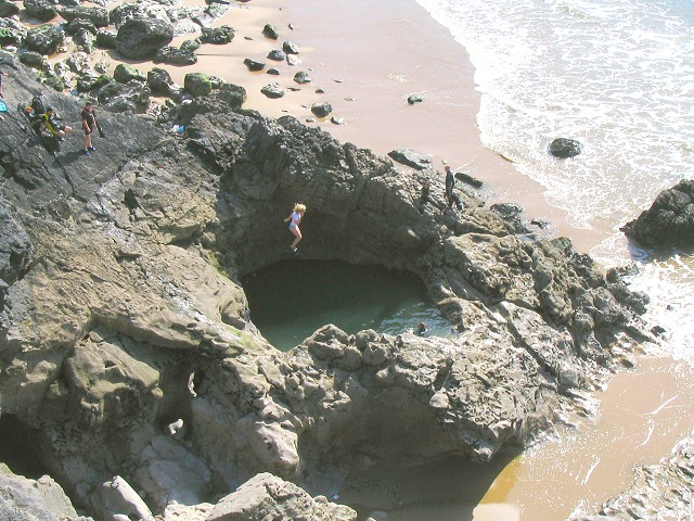 Pool at Blue Pool Corner. This must be the eponymous pool. It seems to be quite deep because plenty of people jumped in from the rocks above while I was photographing and they all walked out unscathed.